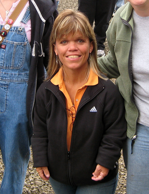 us and the mom, Roloff Farm, 10/13/2007